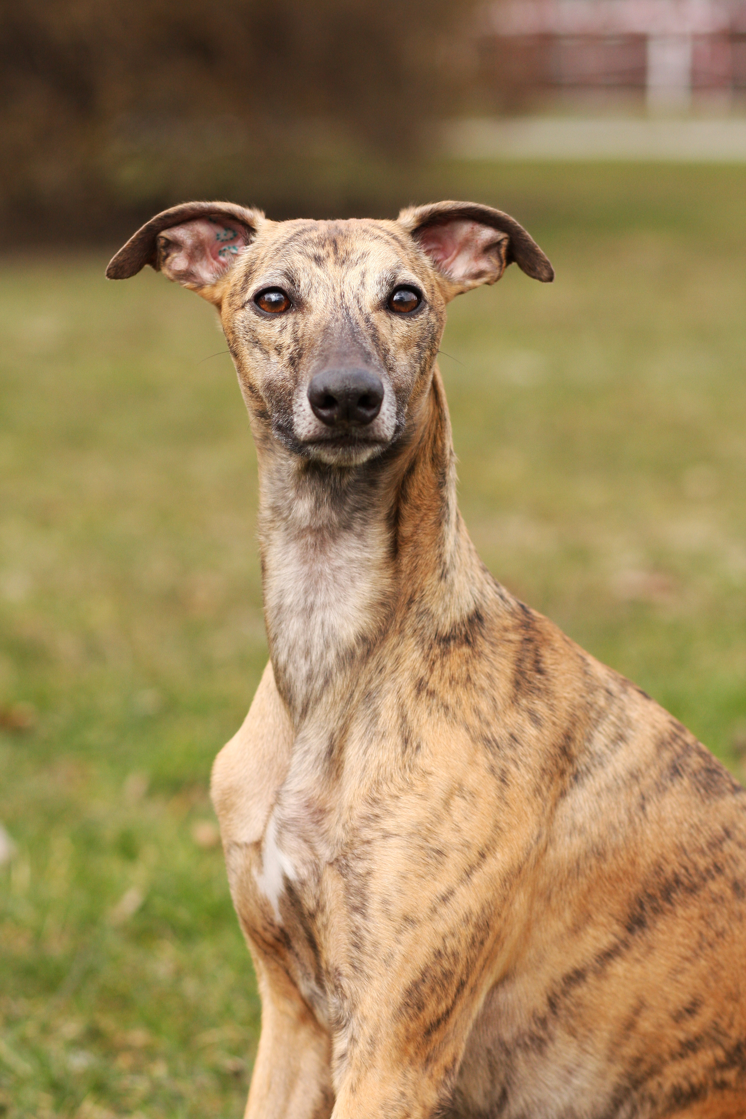 portrait of whippet